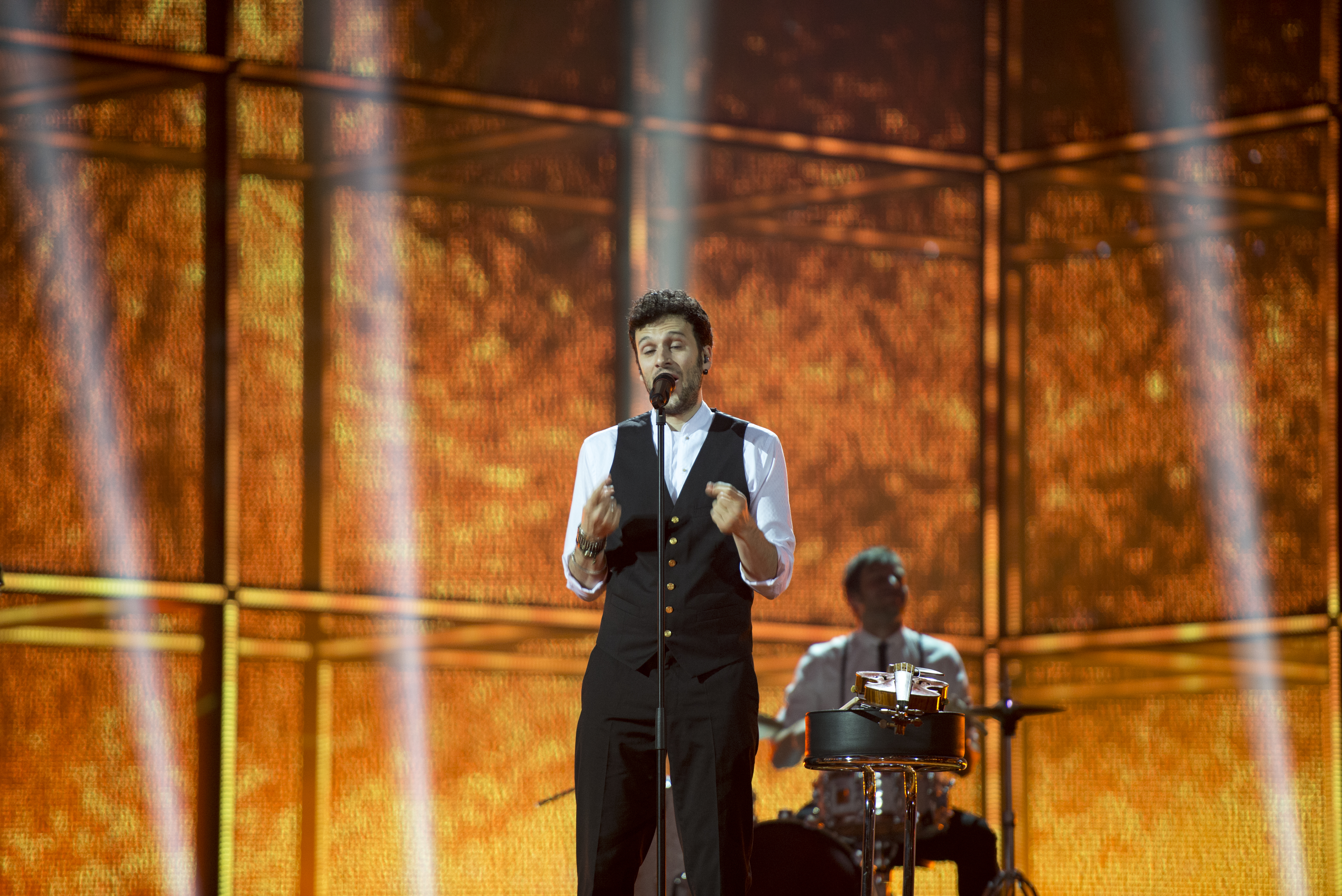 Sebalter representing Switzerland with the song "Hunter of Stars" during the first dress rehearsal of the second semi final of the Eurovision Song Contest 2014 Copenhagen. (Help translate this text)